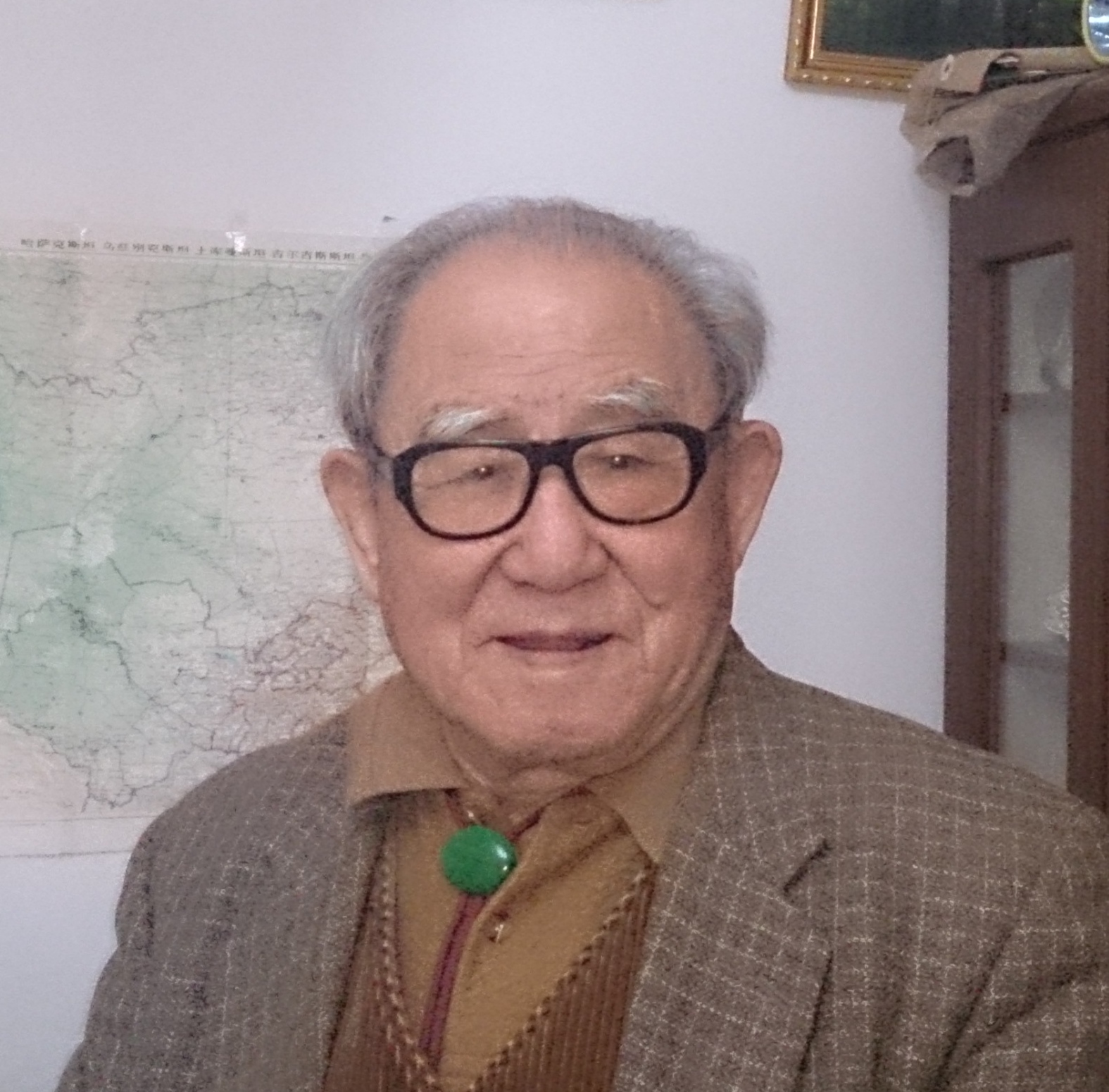 Professor Muhammed Hu Zhenhua at home in Beijing, China. 22.10.2015.